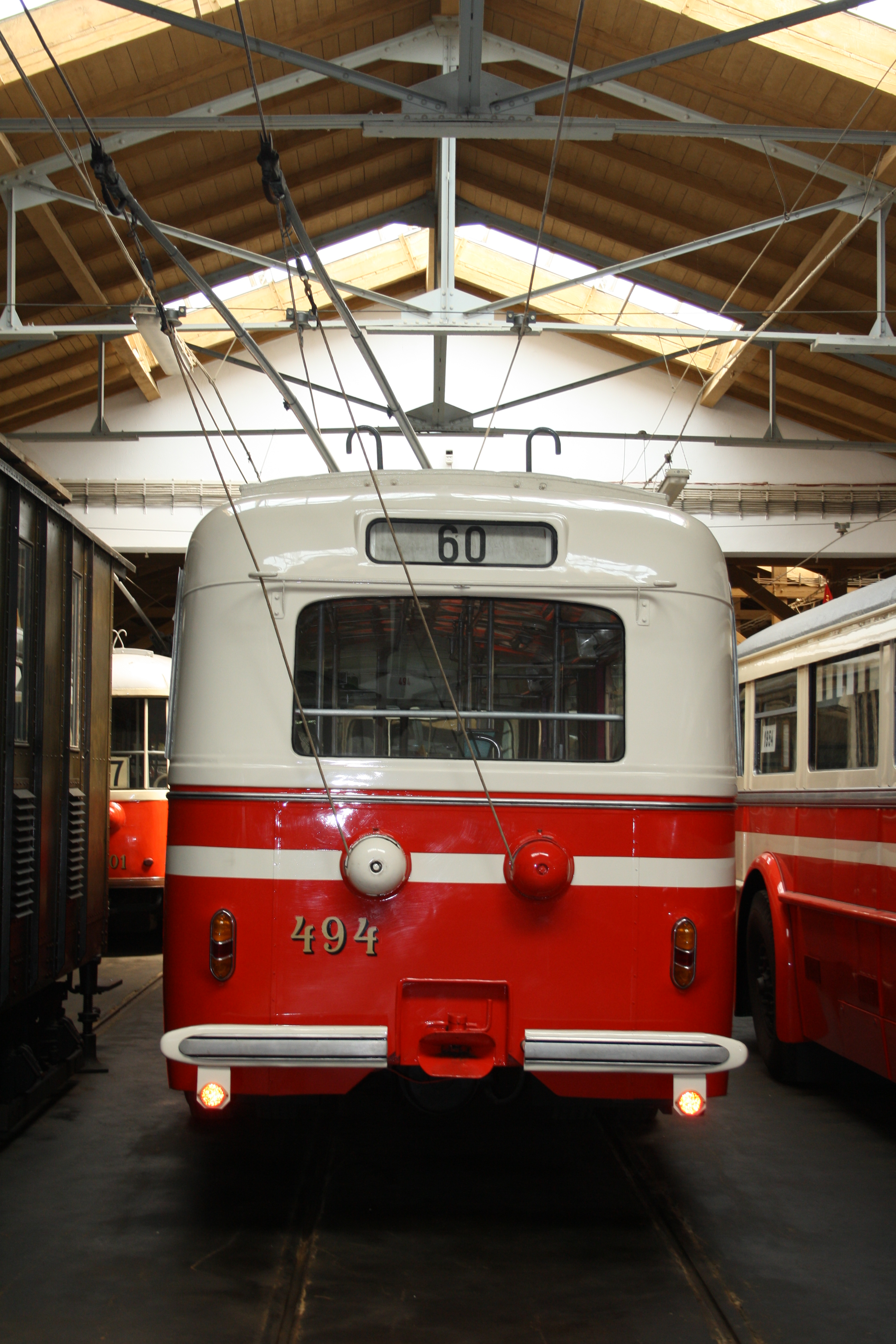 Trolley retrievers on museum trolleybus